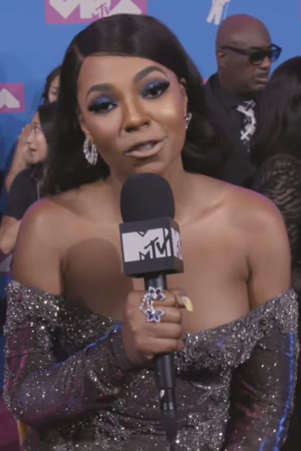 Jennifer Lopez has inspired millions of people around the world. We ask Amber Rose, Jessie Reyez, Sofia Carson, Tyga and more how JLO has inspired their careers.